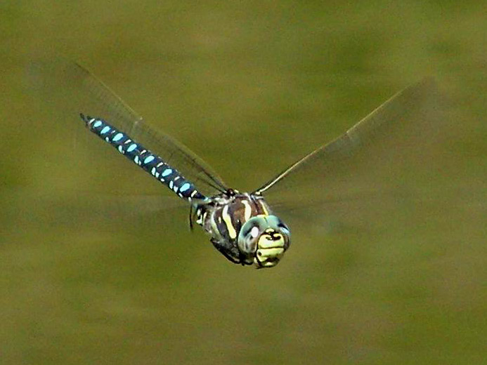 A dragonfly (Aeshna juncea) hovering over a pond in the Pyrenees. Taking a picture of a flying dragonfly is very difficult. They fly very fast and are very hard to follow with a camera - especially if you don't have near-instant focusing capabilities. However, they tend to patrol a certain area, often returning to specific spots where they hover for about a second before flying on. I adjusted the focus and zoom to that particular spot and waited. After dozens of attempts, I made this one. Photo taken by me, Jens Buurgaard Nielsen in August 2005.